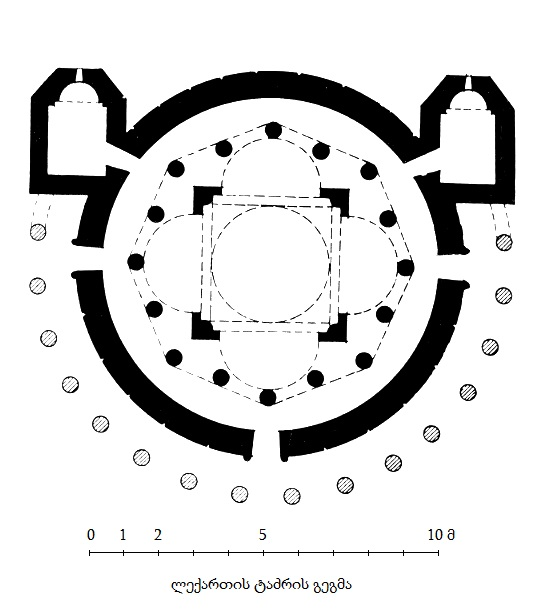 Leqarti church plan